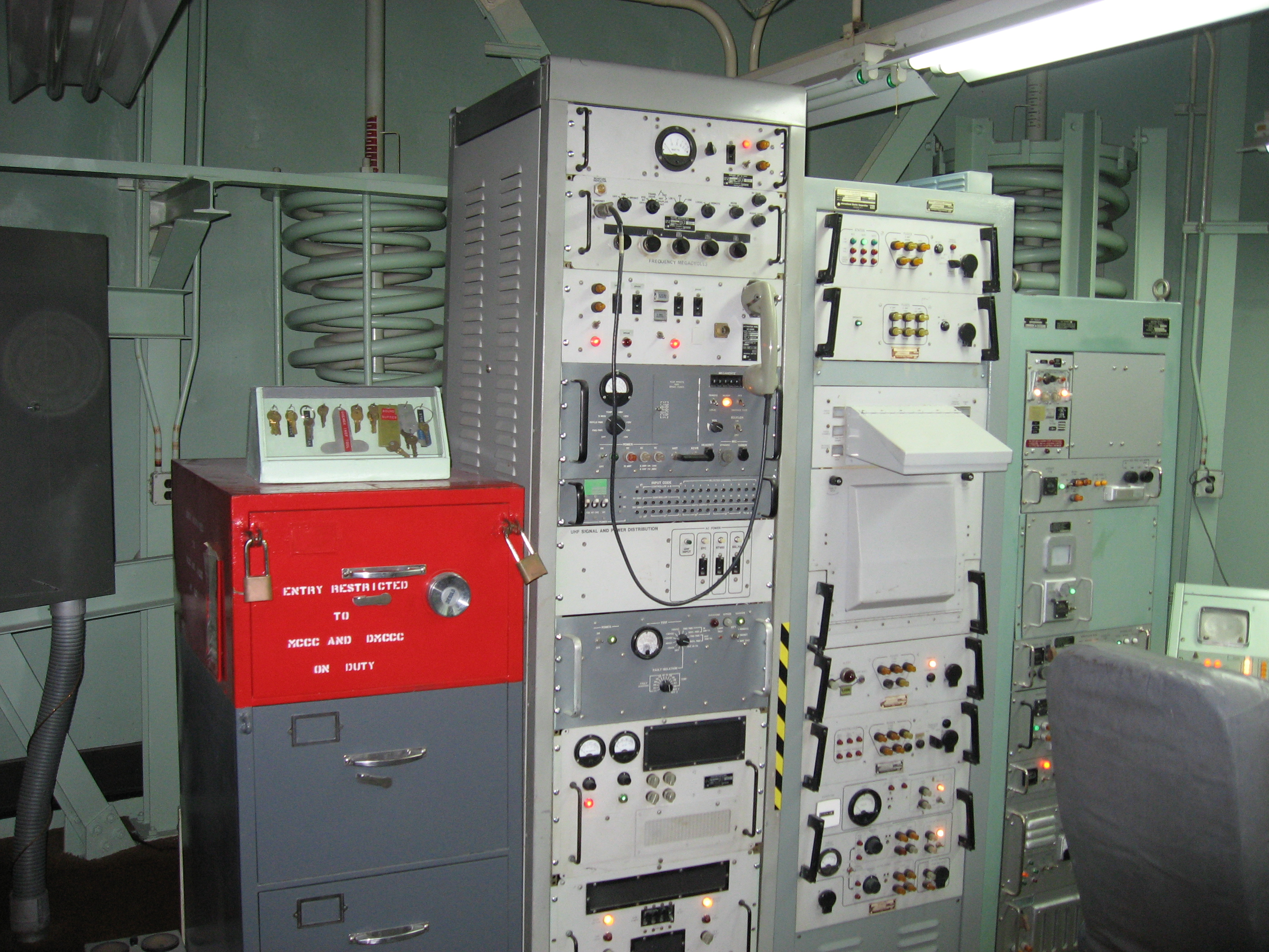 View of the actual safe which contained the missile launch codes. Located inside the control room at the Titan Missile Museum.